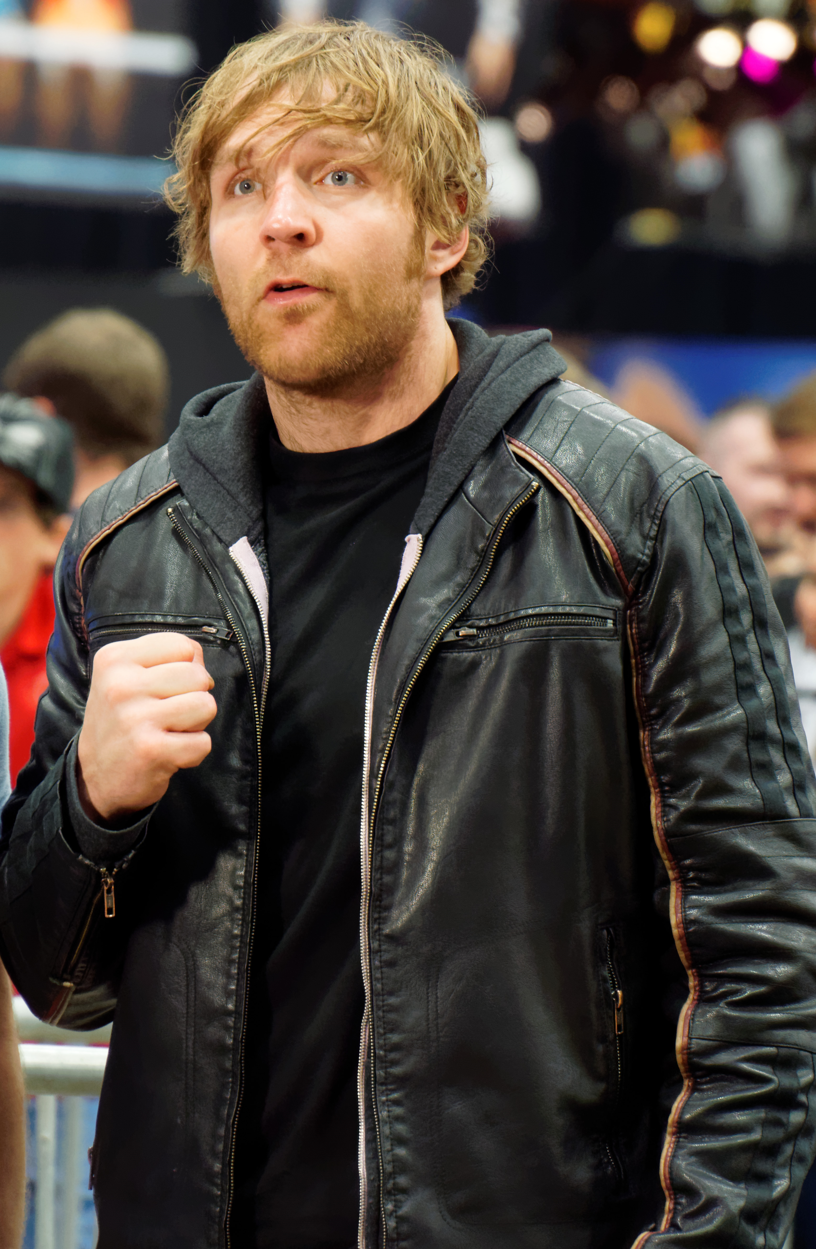 Dean Ambrose at WrestleMania 32 Axxess in March 2016.